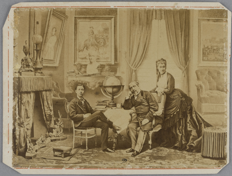 The French Imperial Family in exile